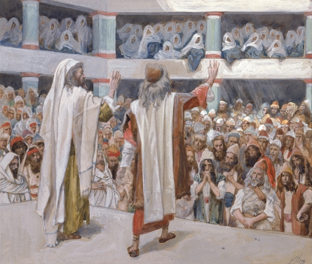 Moses and Aaron Speak to the People, c. 1896-1902, by James Jacques Joseph Tissot (French, 1836-1902), gouache on board, 8 7/16 x 10 1/8 in. (21.4 x 25.7 cm), at the Jewish Museum, New York